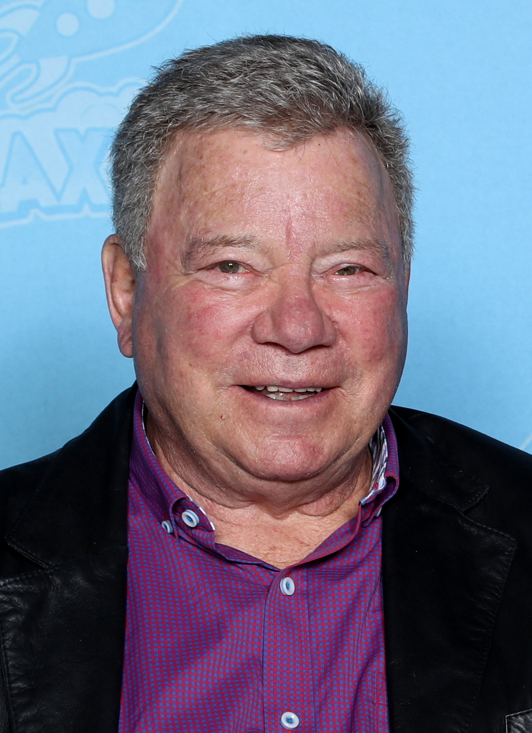 William Shatner at GalaxyCon Richmond in 2020